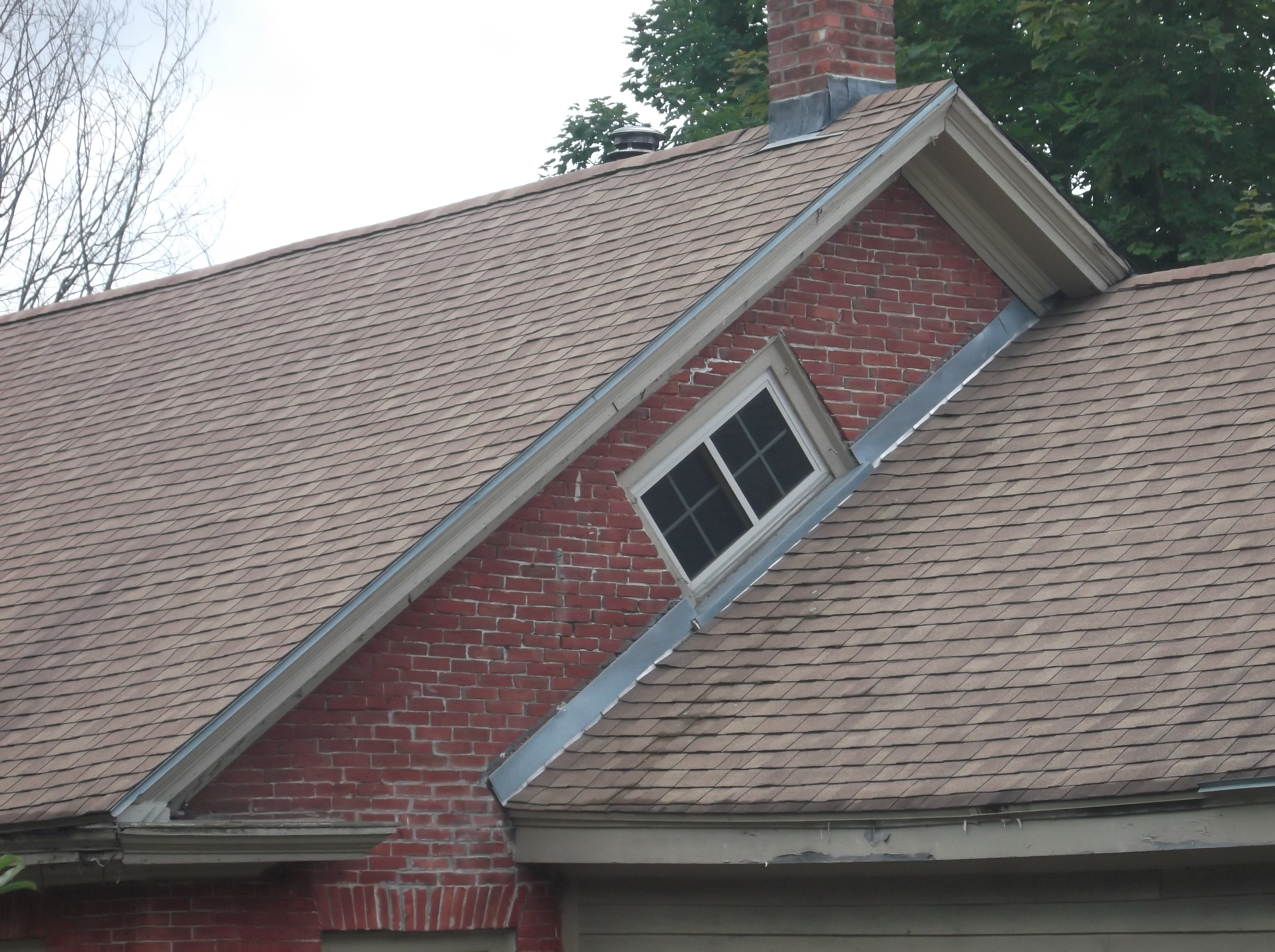 Vermont window in a brick house near Waterbury Center, Vermont.